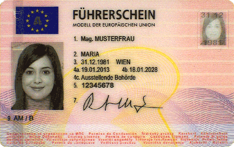 Specimen for the European driving licence used in Austria since 2013, front side